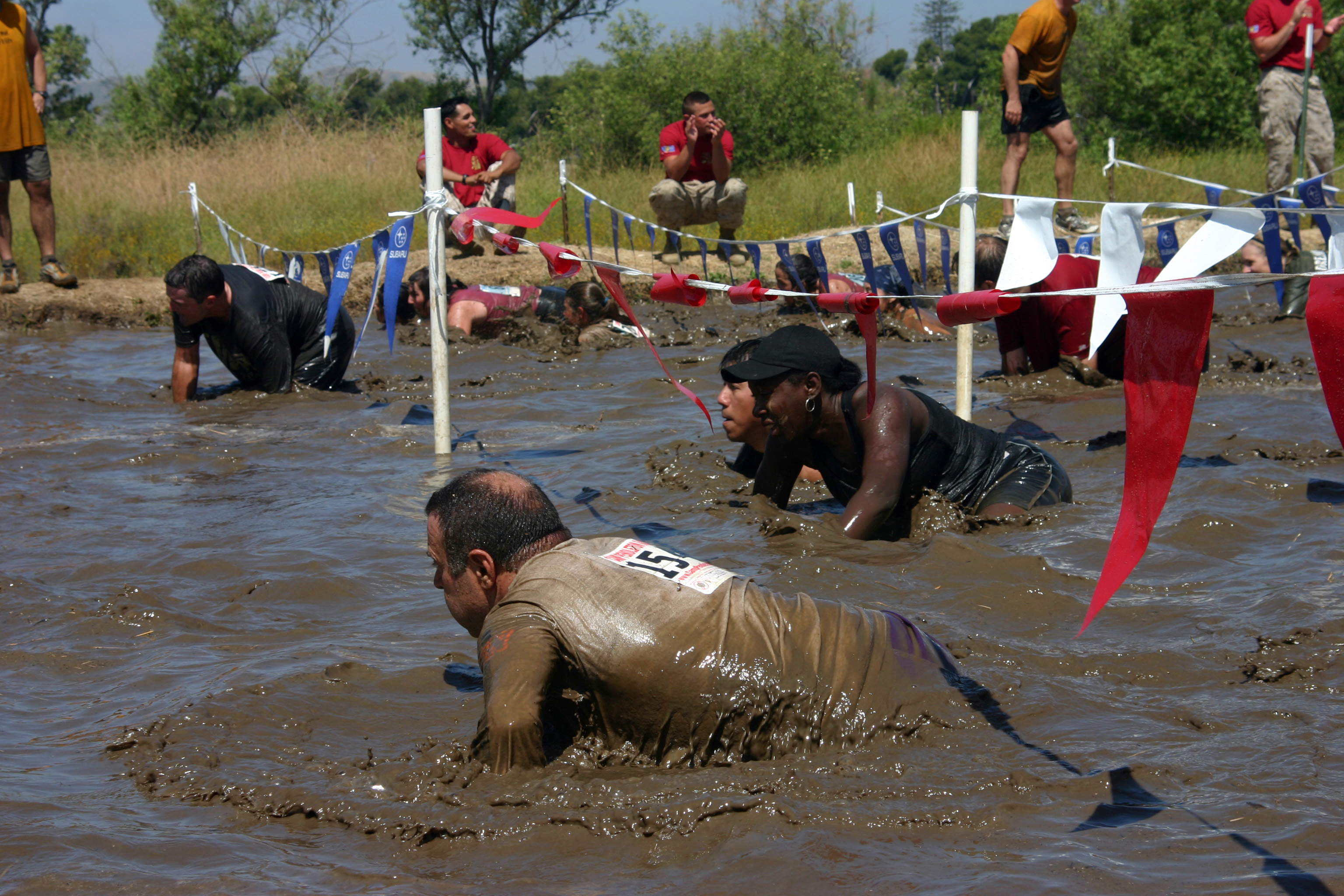 CAMP PENDLETON, Calif. (June 7, 2008) Participants of the 15th annual Mud Run cross the final challenge after encountering several "liquid earth" pits in the 10k course. U.S. Navy photo by Mass Communication Specialist 1st Class Jose Lopez Jr. (Released)